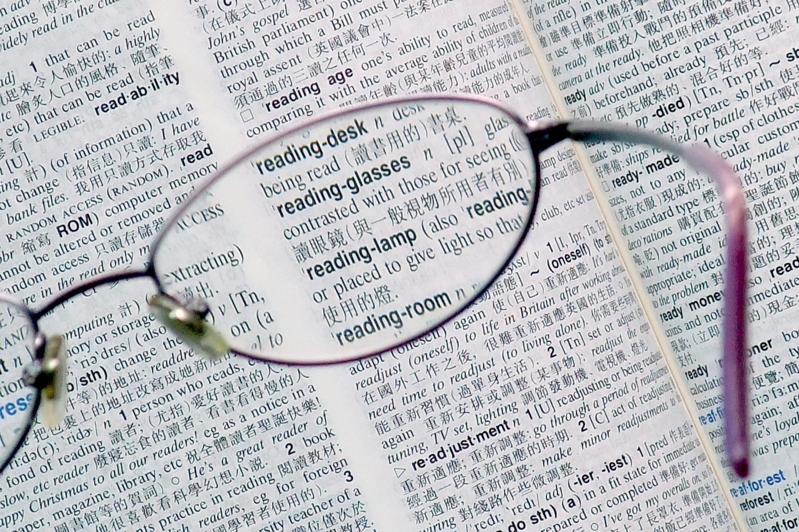 Reading glasses.